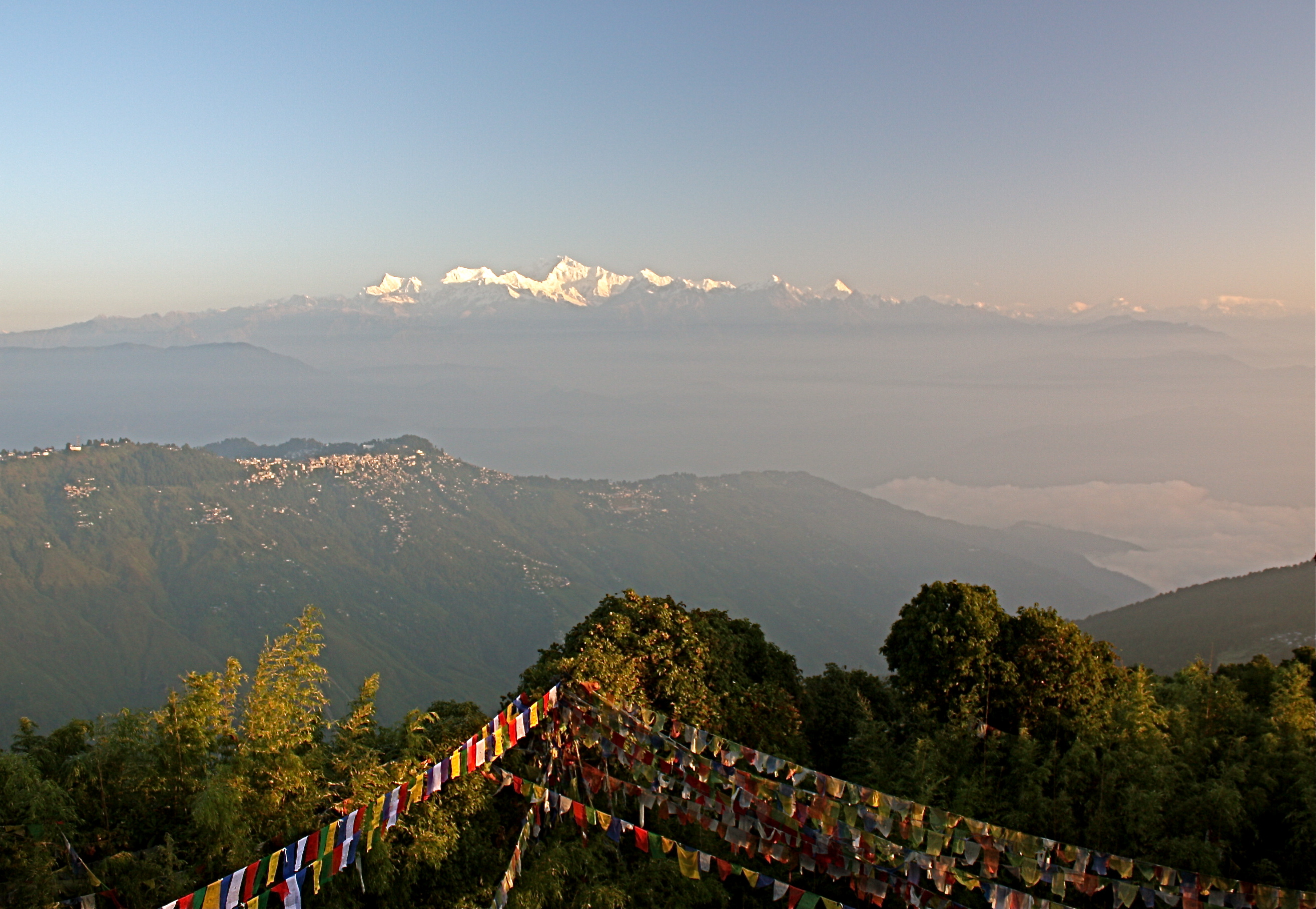 View of the Himalayas and the Kanchenjunga, from Tiger Hill, Darjeeling, also showing Tibetan Buddhism Prayer flags in the foreground.